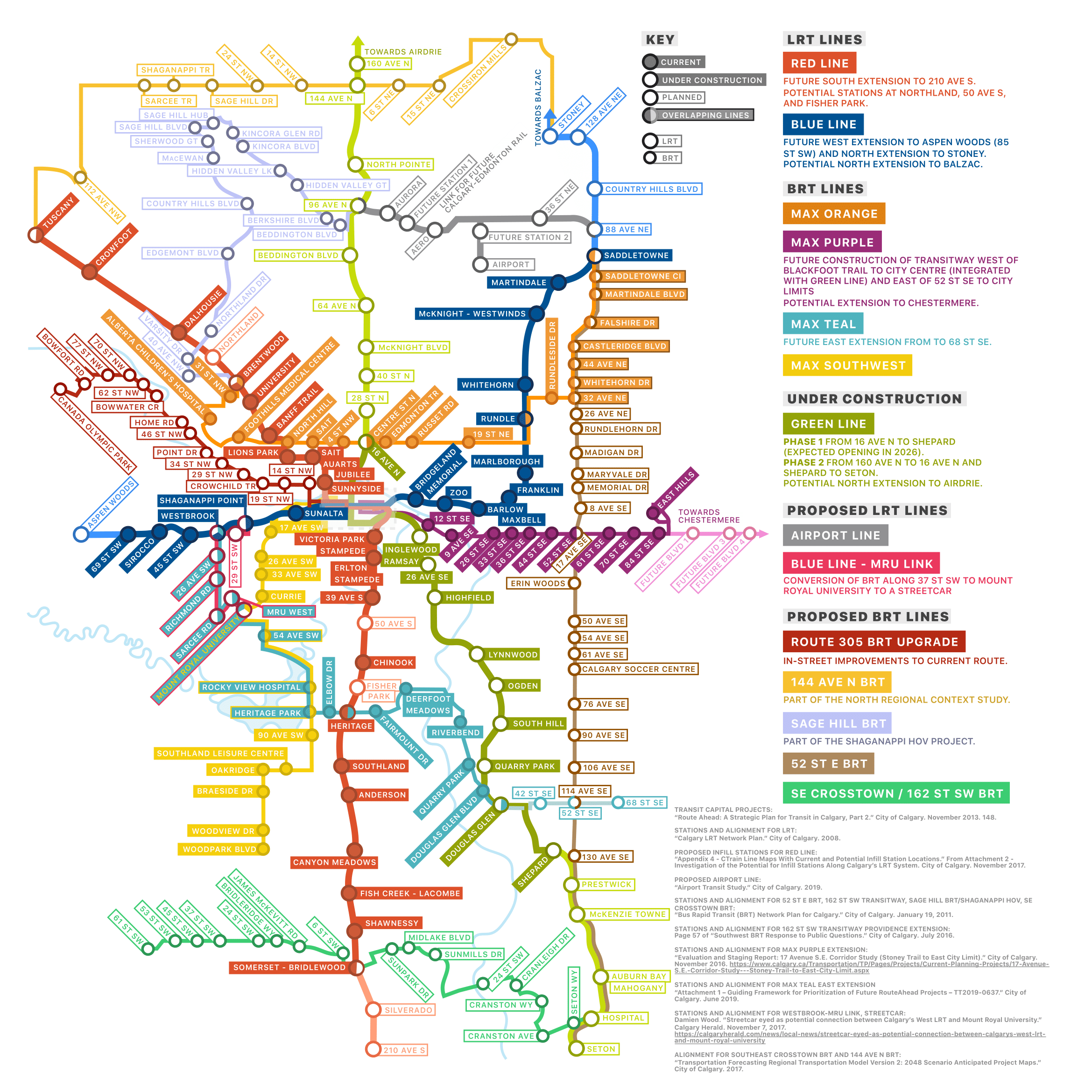 City of Calgary capital transit projects based on the LRT Network Plan (2008), the BRT Network Plan (2011), theRouteAhead Plan (2013) and other city documents.